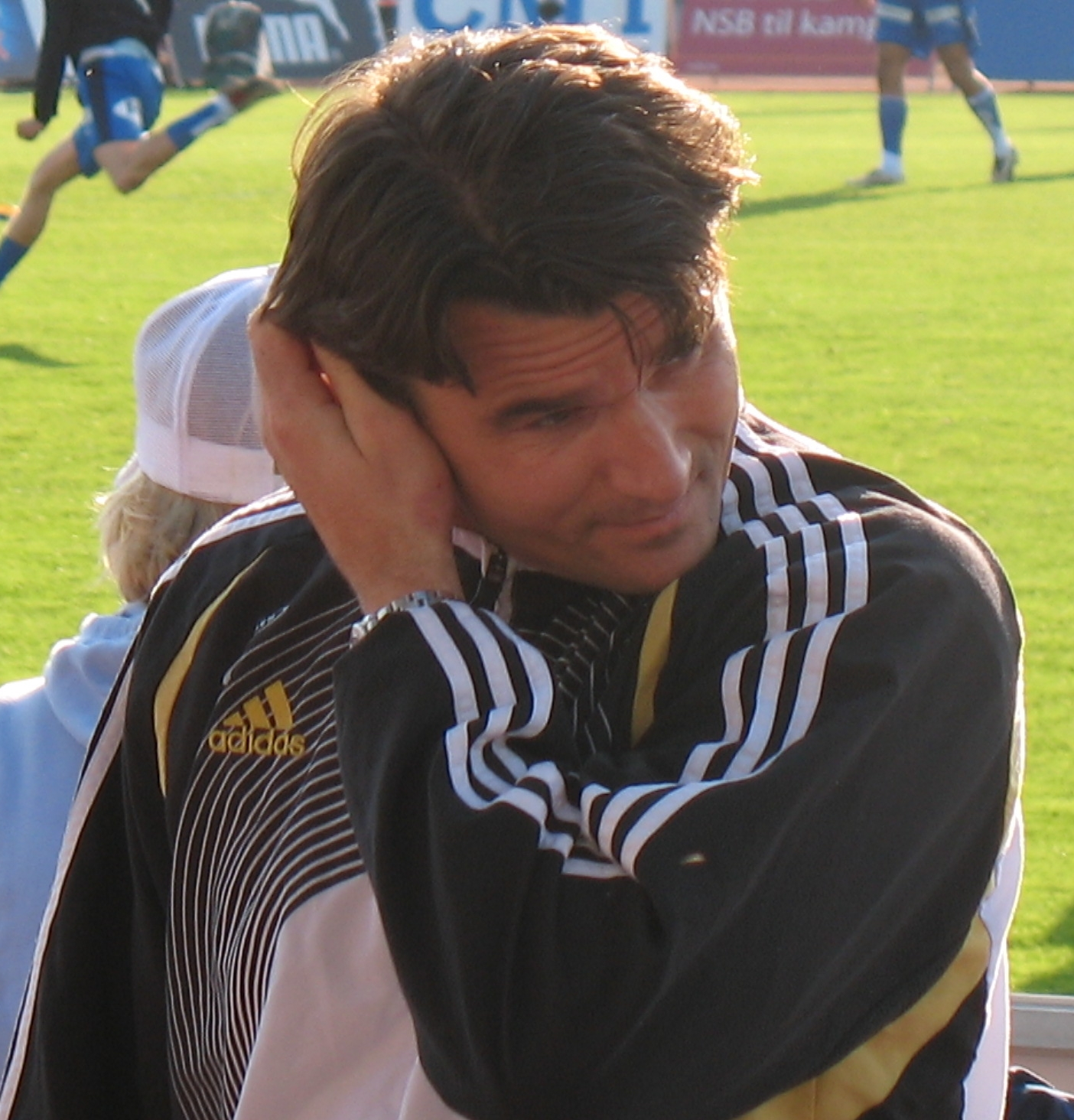 Jørn Jamtfall, goalkeeping coach at the Norwegian football (soccer) national team, and assistant coach at Rosenborg.